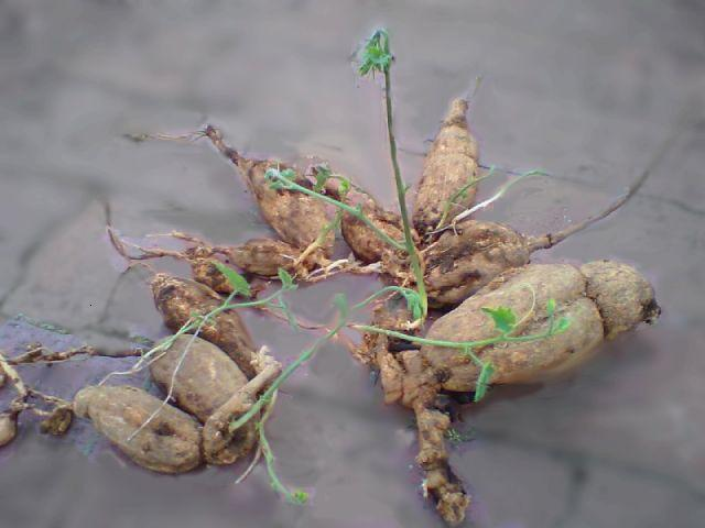 Trichosanthes cucumeroides[check] roots. Japan. Needs verification. Was placed in Trichosanthes cucmerina category. Dysmorodrepanis (talk) 02:05, 14 October 2011 (UTC)